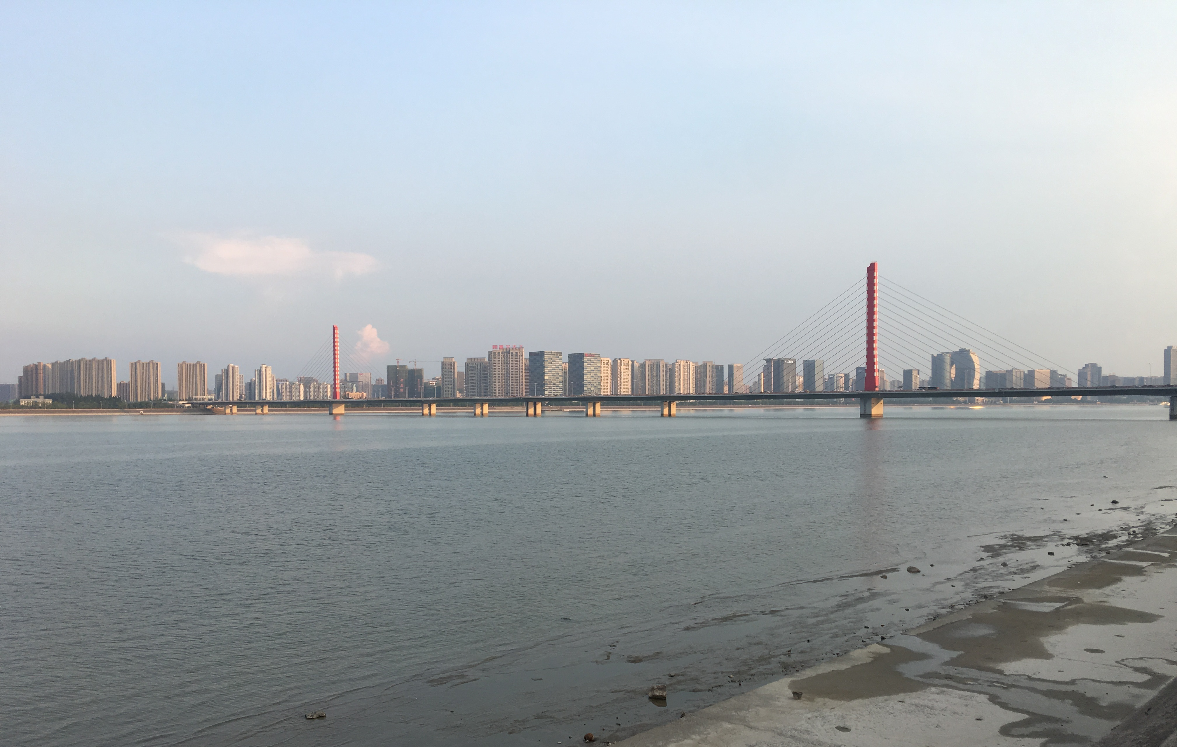 Image of the Binjiang District east side of the Qiantang River in Hangzhou city, China